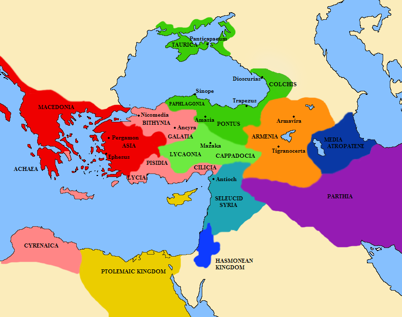 A map of the Middle east, Greece and Asia minor, showing the states at the breakout of the first Mithridatic war, 89 BC.